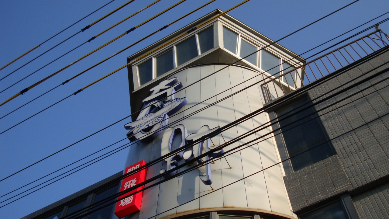 Is located in Dayuan Township, Taoyuan County attractions,The miracle cafe